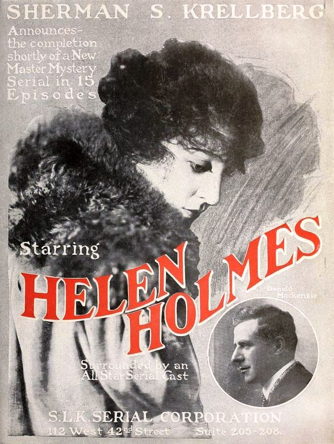 Ad for the American film serial The Fatal Fortune (1919) with Helen Holmes, directed by Donald MacKenzie (and Frank Wunderlee), on page 242 of the July 12, 1919 Motion Picture News.